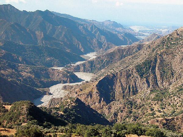 valley of the Amendolea river, near Reggio Calabria